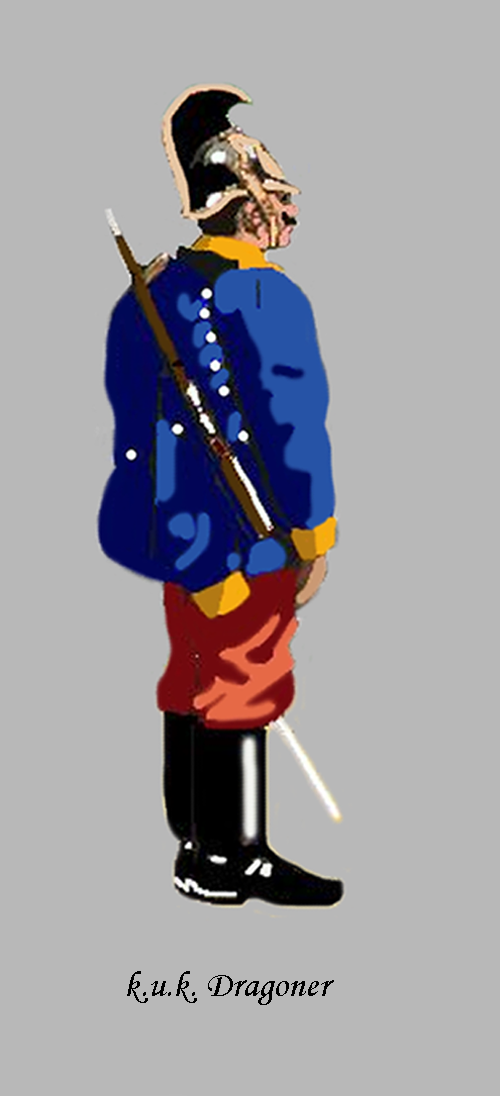 Enlisted man of the k.u.k. Dragoons in Marching/Parade Dress. Uniform a sworn until about 1916